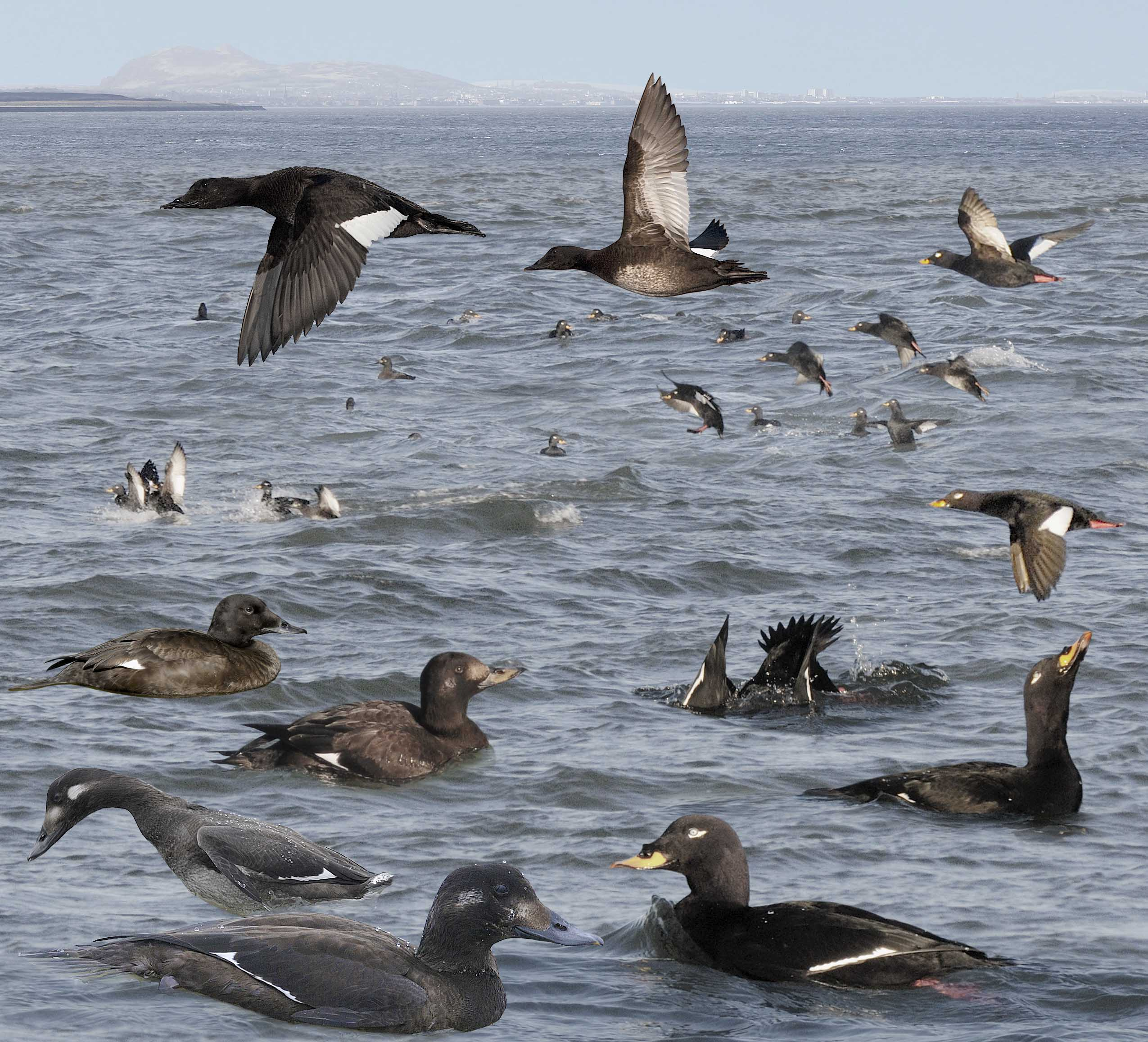 Velvet Scoter from the Crossley ID Guide Britain and Ireland